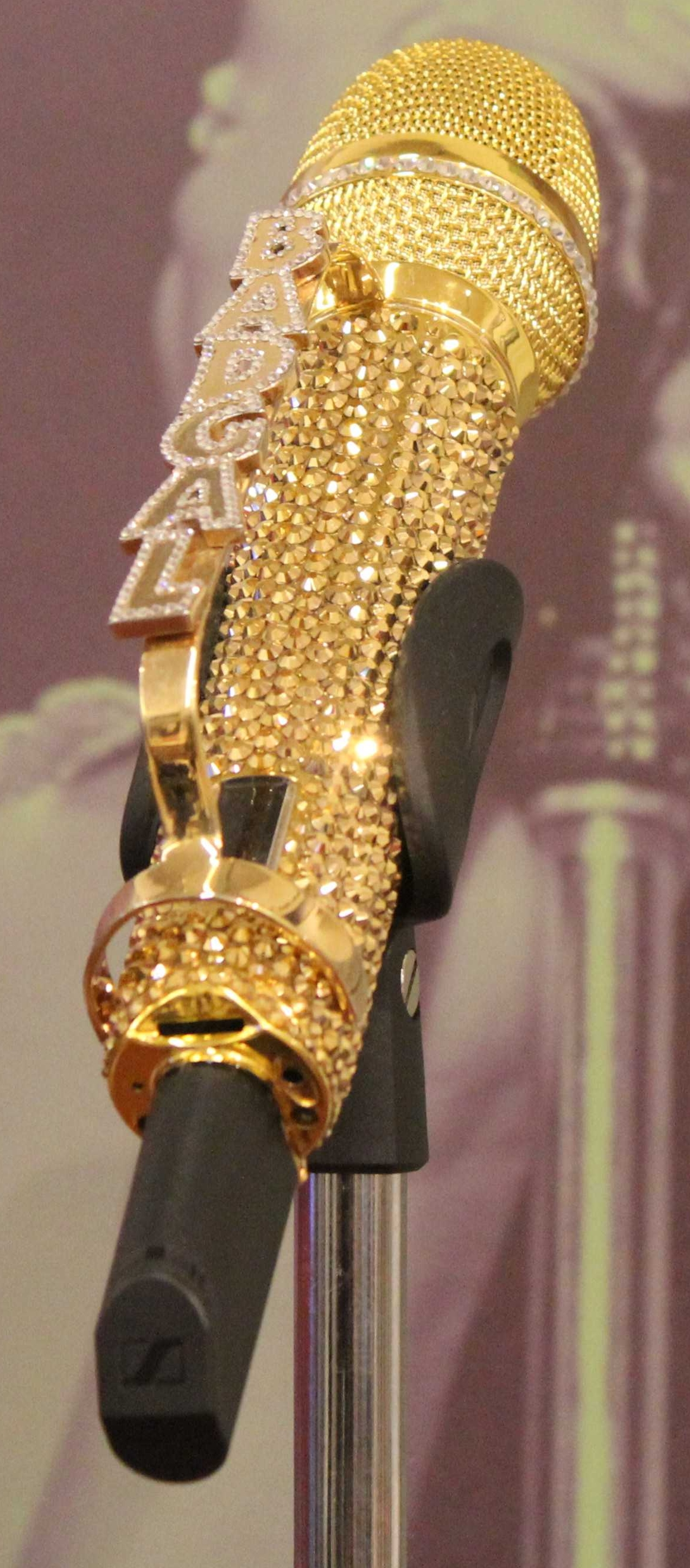 "Bad Gal" Microphone, Rihanna, displayed at Musical Instrument Museum (Phoenix) (MIM)